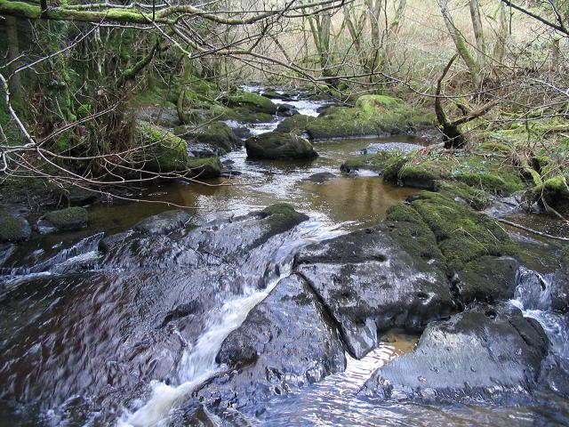 Afon Aled from Pidgeon Bridge There's not much water, as it had not rained for some time. The ravine around here is very deep and is difficult to photograph. "Pidgeon" is spelt the same way as on the sign there.